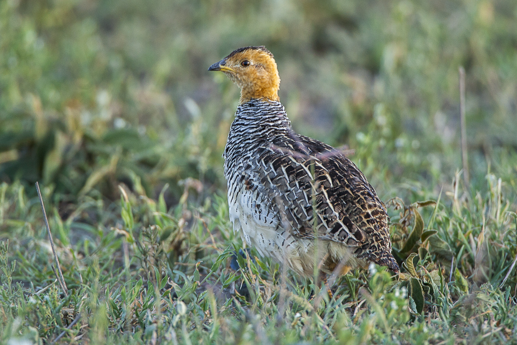 A male Coqui francolin (of the plain-bellied race) at Ndutu, northern Tanzania